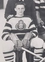 Dickie Moore, circa 1948